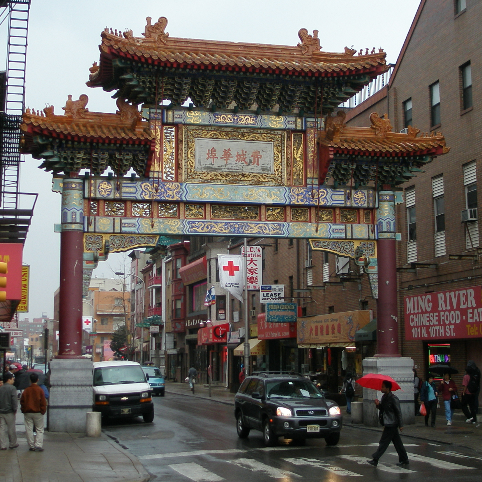 "Friendship Arch", 10th Street (十街 Shí​ Jiē) and Arch Street (T: 亞區街, S: 亚区街, P: Yàqū Jiē), Chinatown, Philadelphia.